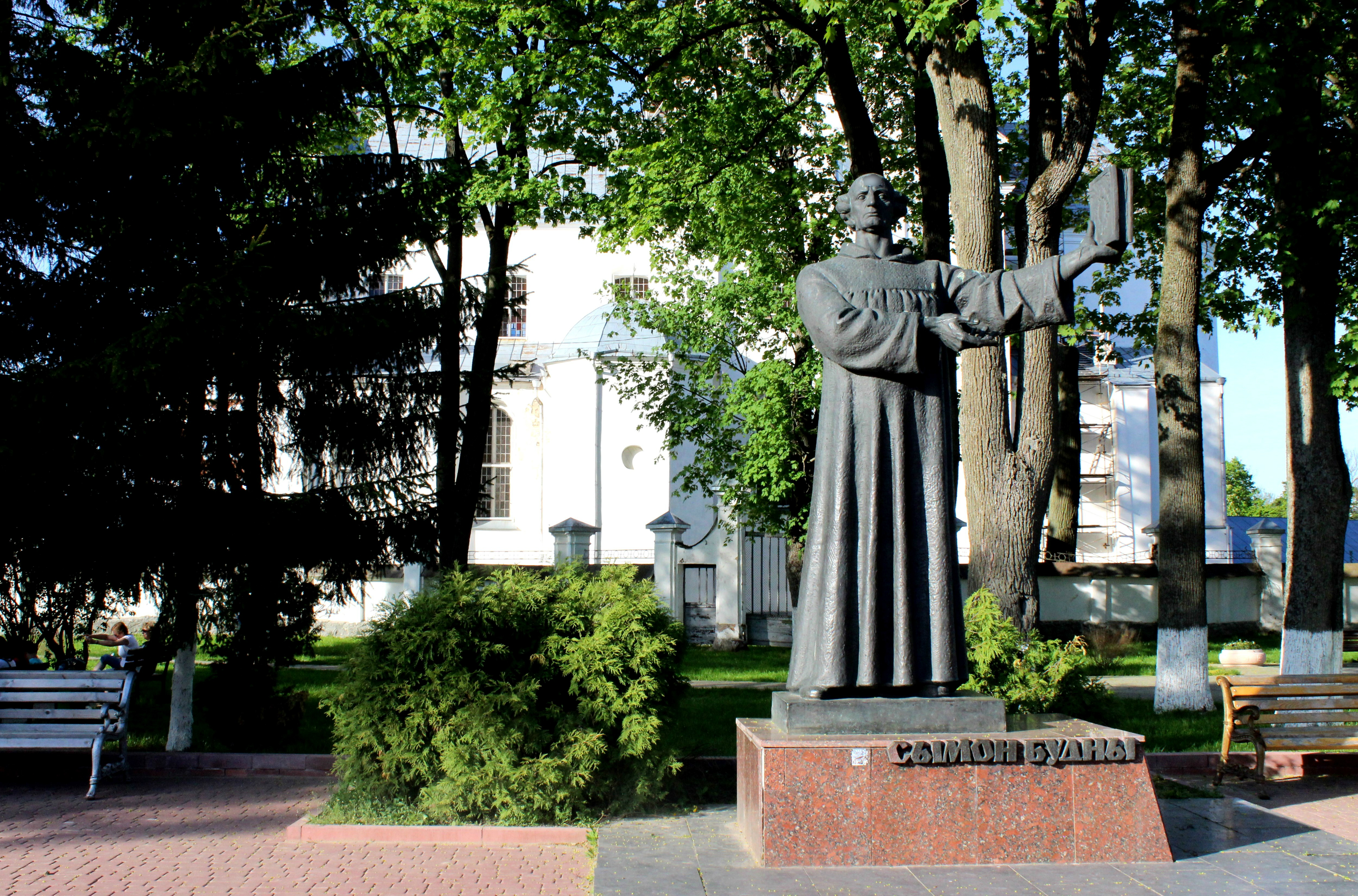 Monument of Simon Budny in Nesvizh. Sculptor Svetlana Gorbunova, 1982